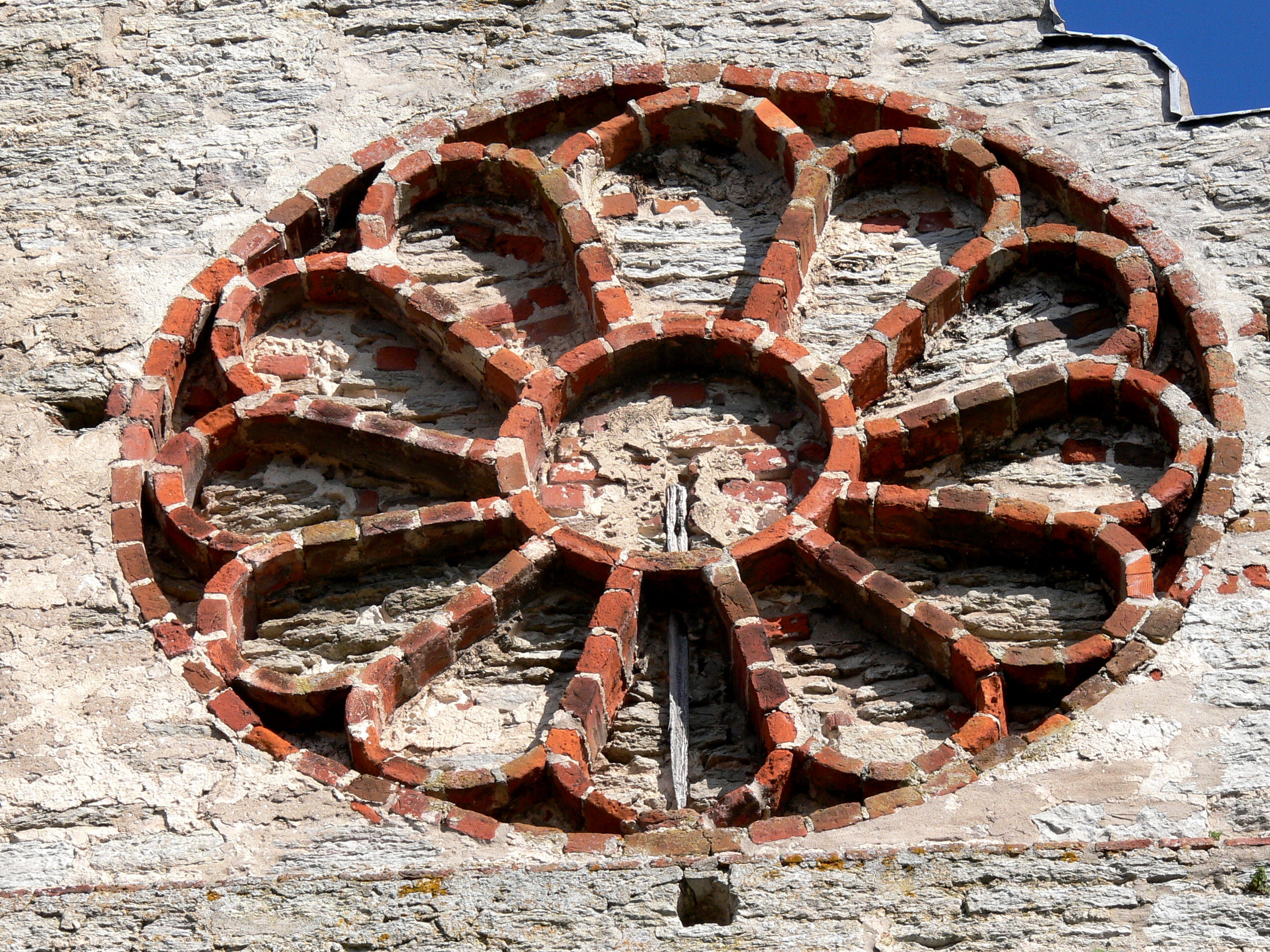 Visby ( Gotland/Sweden ). Church ruin of Saint Nikolai - Brick rose ornament at the facade.